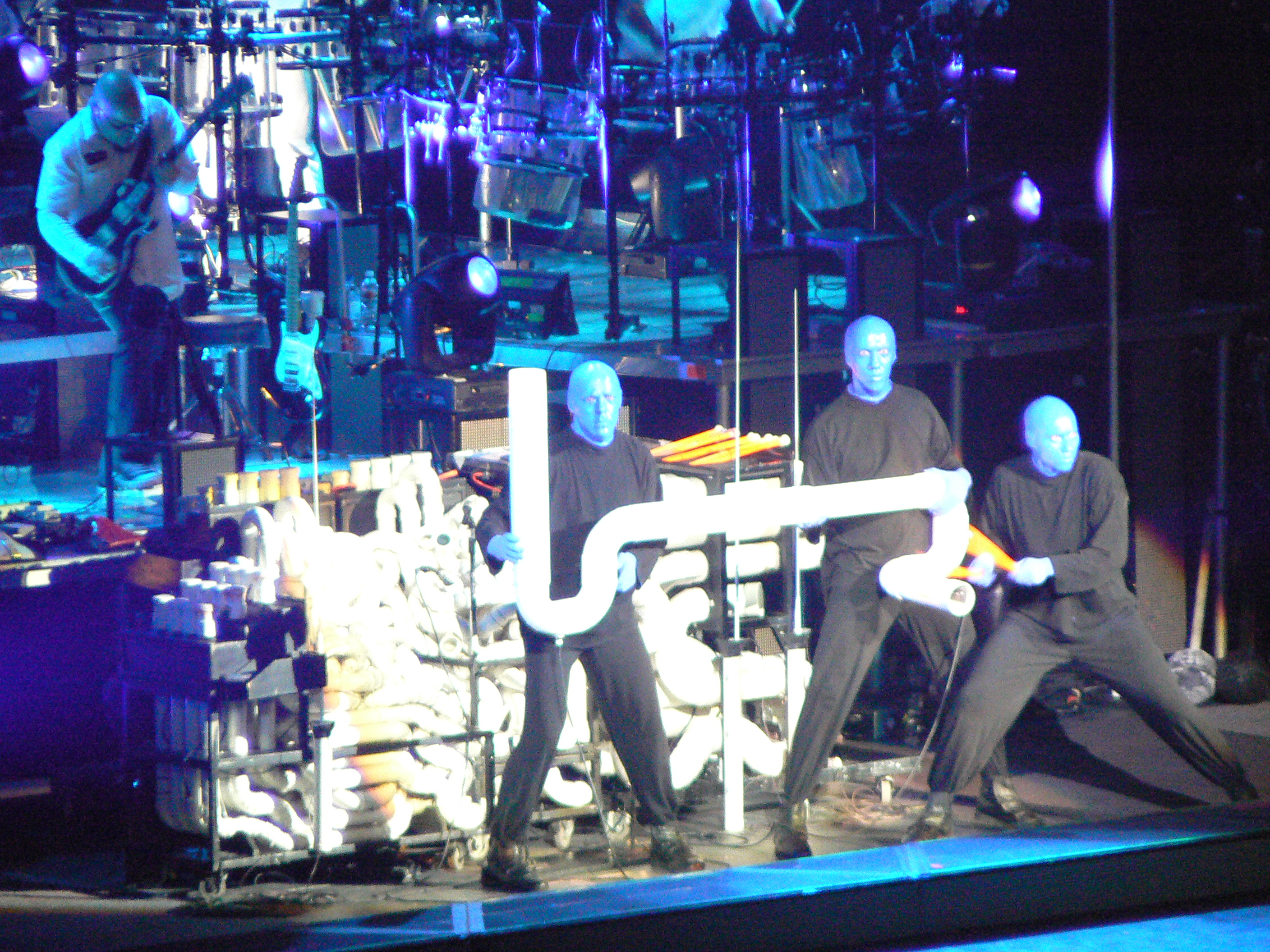 Blue Man Group; Austin, Texas USA, December 2007 Video of the performance.